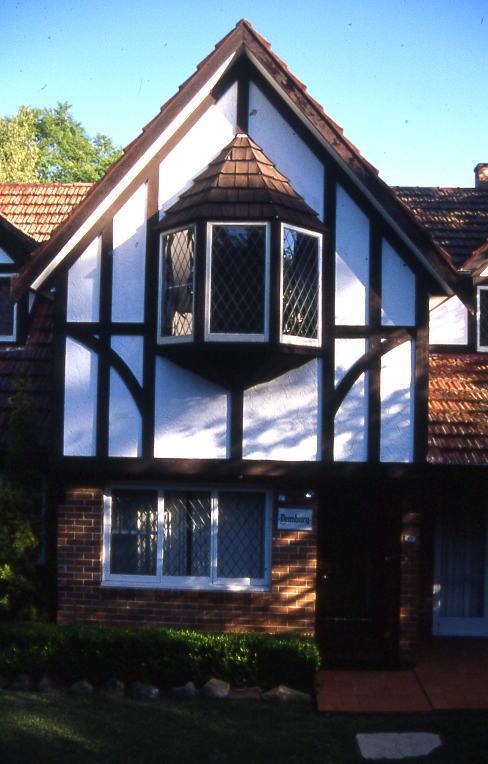 Tudor Revival home, Wahroonga, Sydney